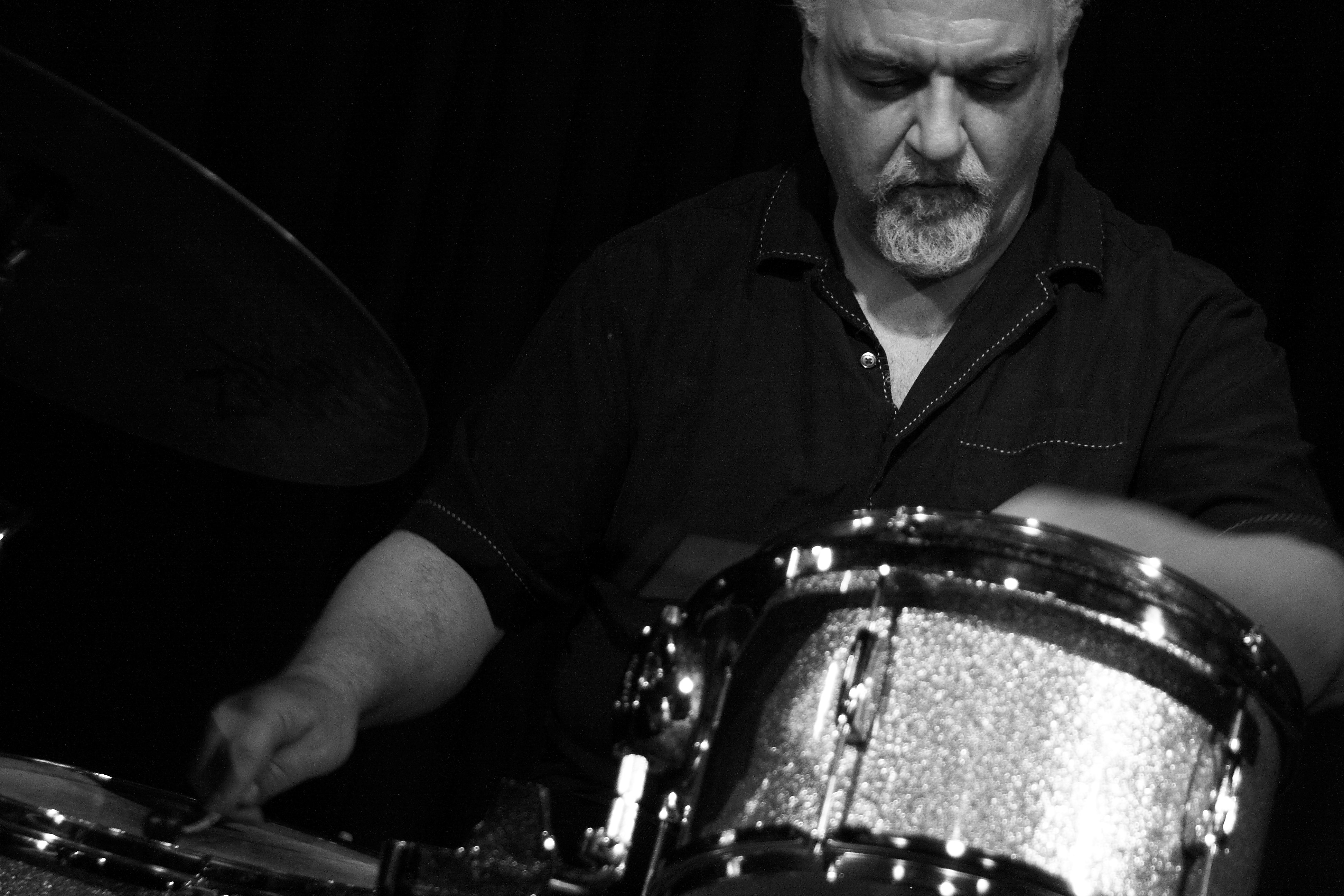 Michael Zerang in concert with Survival Unit III at Club W71, Weikersheim.